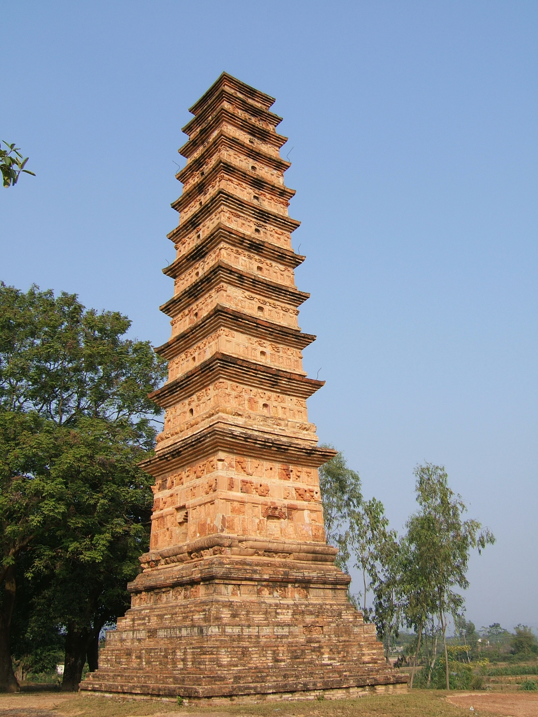 Bình Sơn Tower in Vĩnh Khánh Pagoda, Tam Sơn Town, Sông Lô District, Vĩnh Phúc Province, VietnamTiếng Việt: Tháp Bình Sơn, chùa Vĩnh Khánh, thị trấn Tam Sơn, huyện Sông Lô, tỉnh Vĩnh Phúc